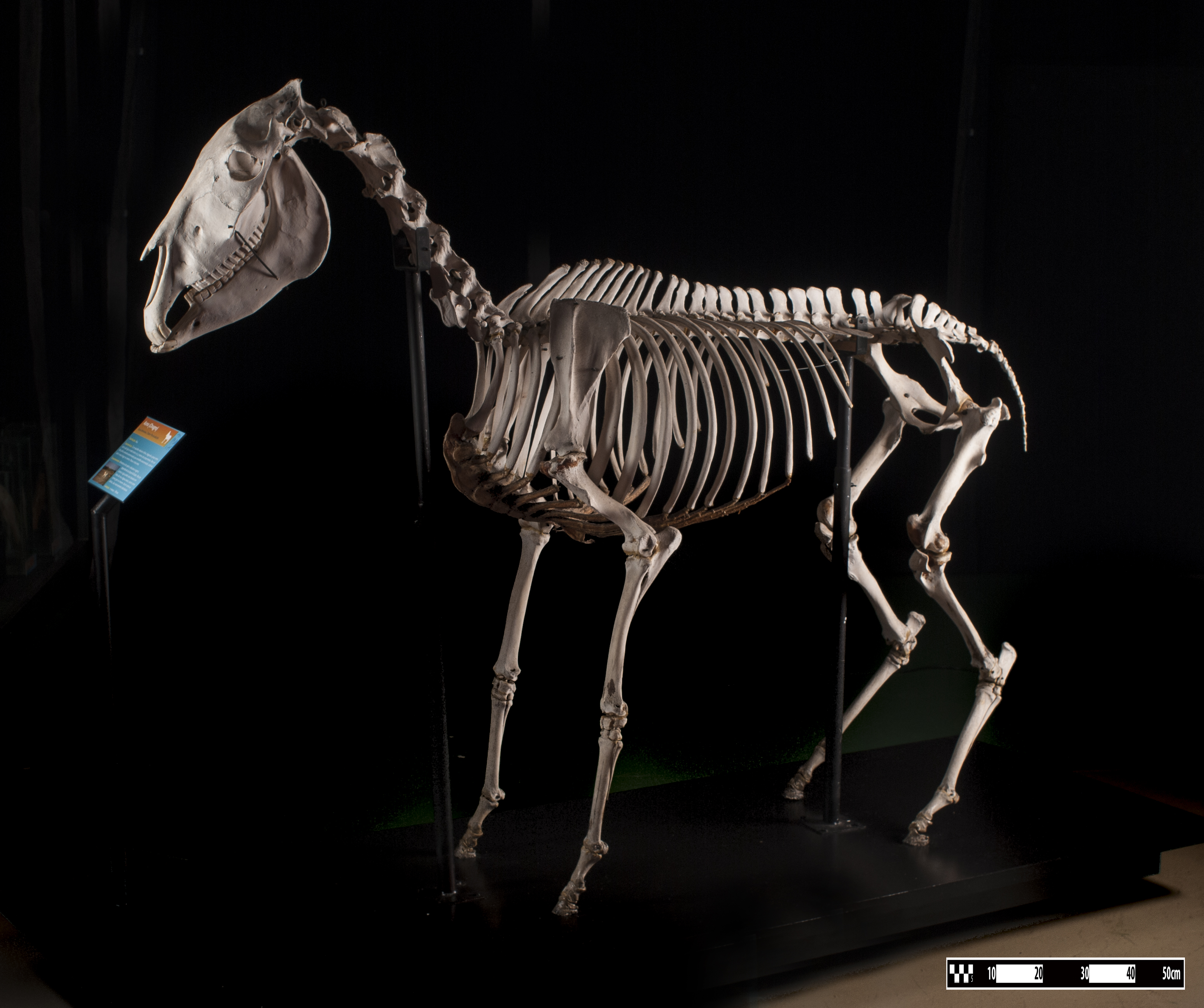 Asian Wild Ass skeleton. Equus hemionus”. Specimen of Asian Wild Ass (Asian Ass) skeleton prepared by the bone maceration technique and on display at the Museum of Veterinary Anatomy, FMVZ USP.